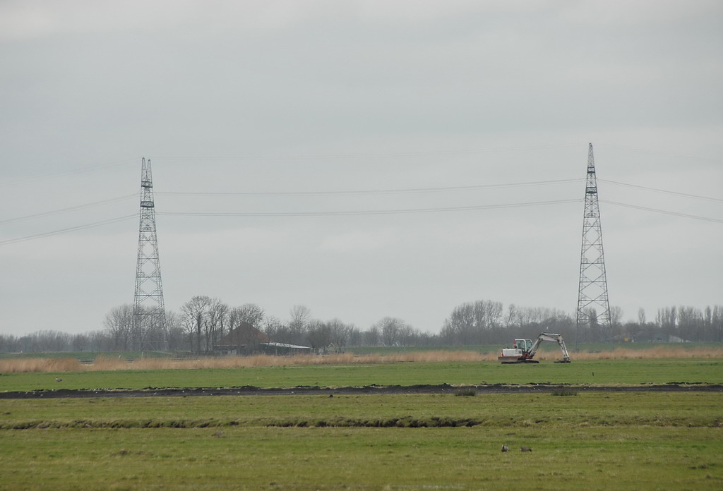 Jisp, power pylons at the crossing of the Noordhollands Kanaal